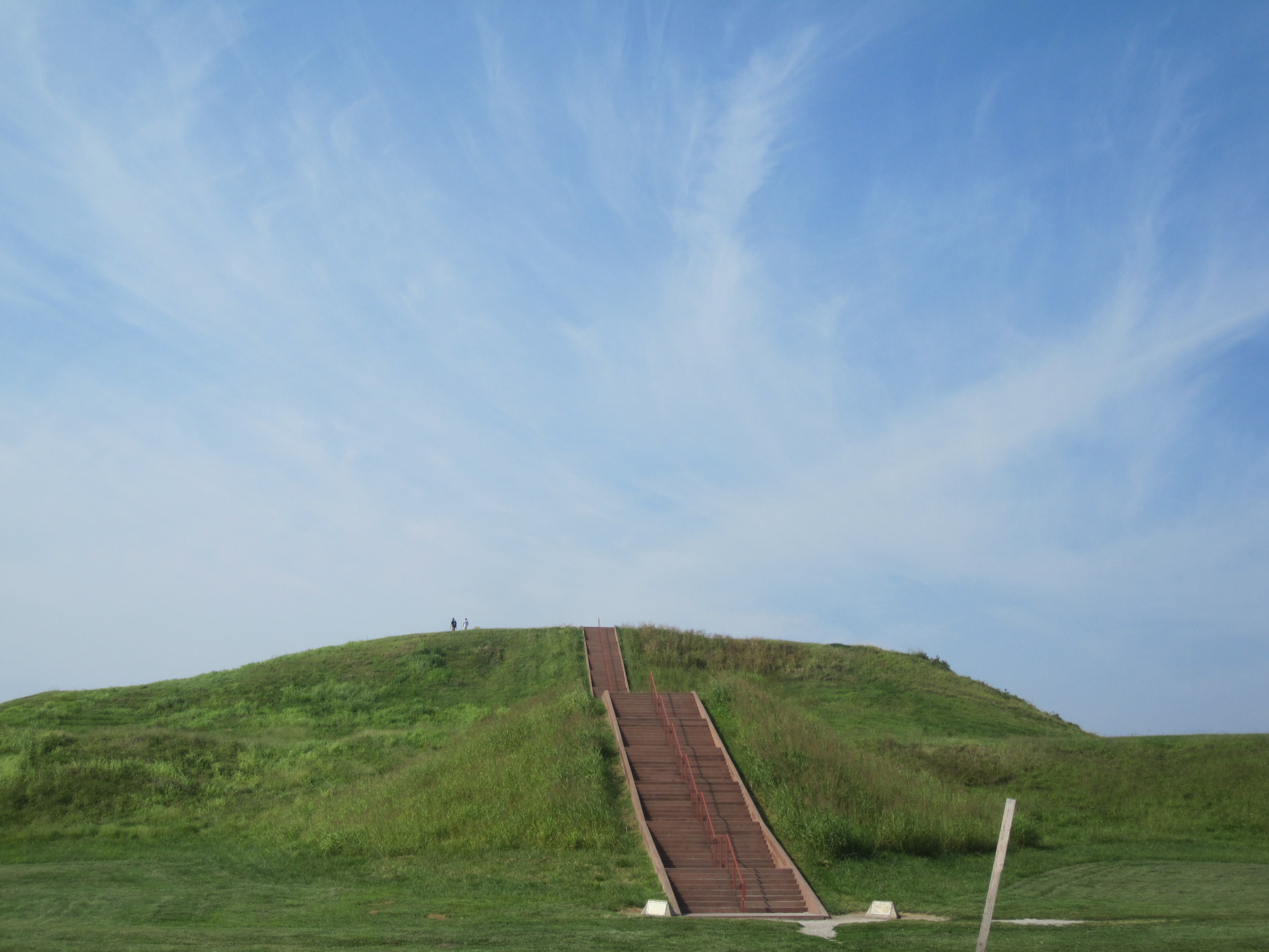 Monk's Mound in Cahokia